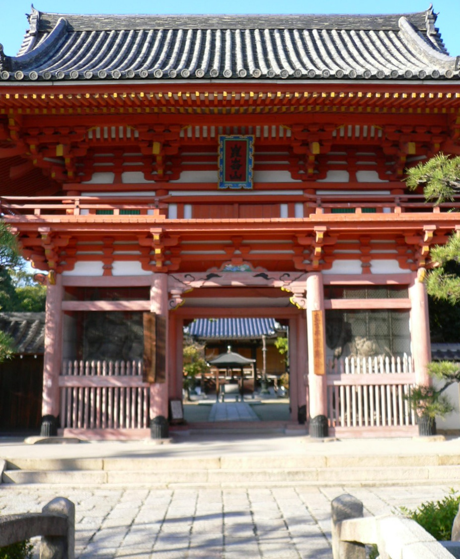 Kon'youji Sanmon (a gage of temple in ItamiHyōgo Prefecture, Japan